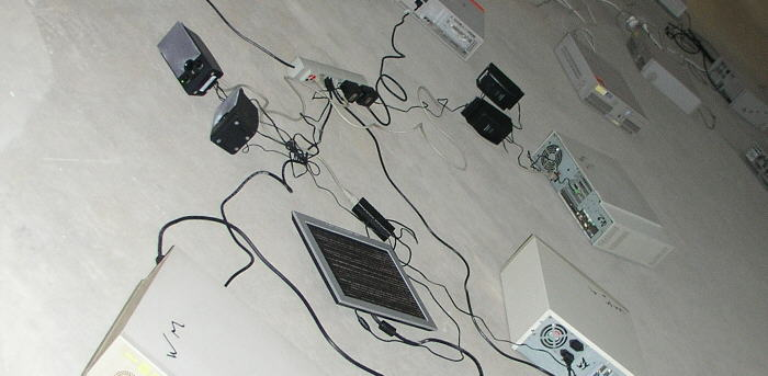 Maurizio Bolognini's installation of Programmed Machines at Neon, Bologna